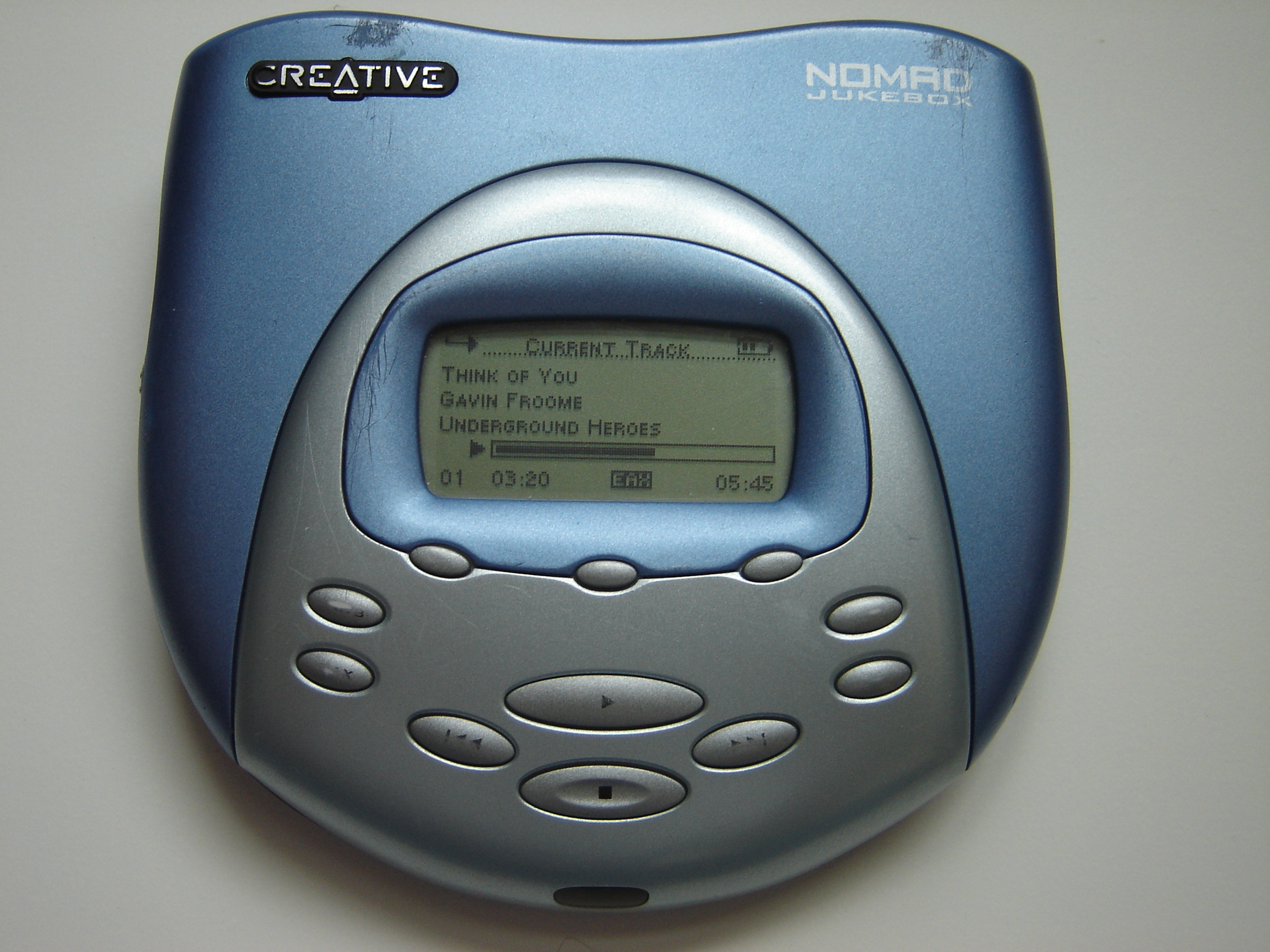 Photo of the Creative Nomad Jukebox (DAP), playing "Think of You" by Gavin Froome (Underground Heroes, 2004).